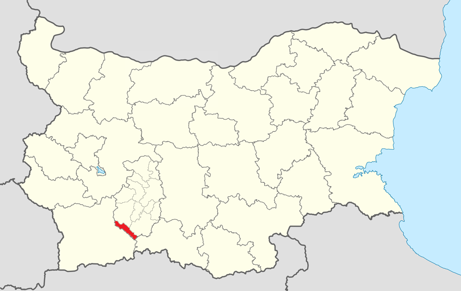 Location map of Sarnitsa Municipality within Bulgaria and Pazardzik province